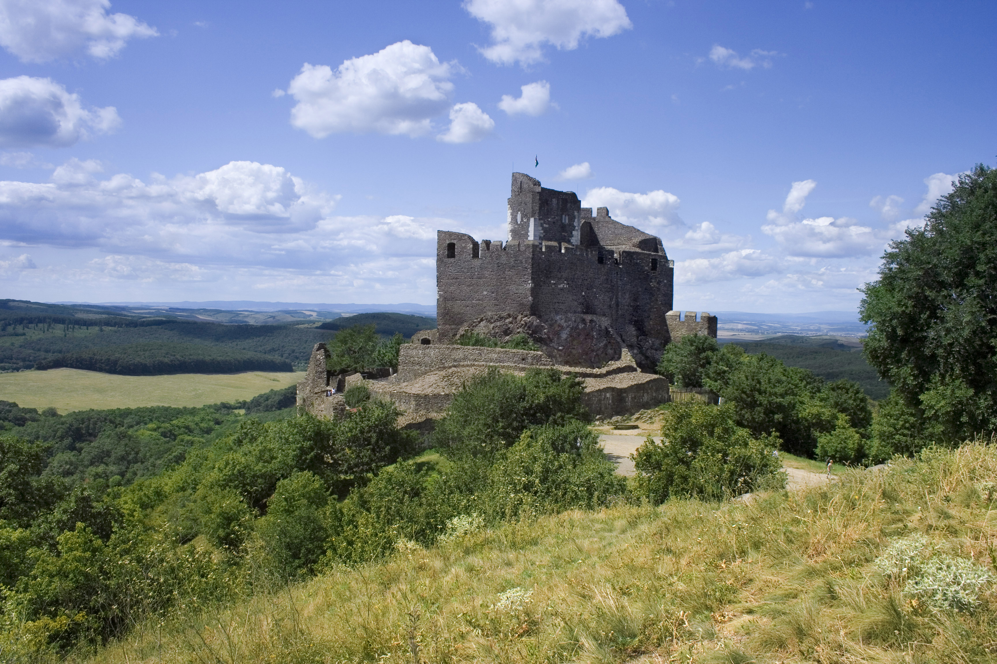 Hollókő Castle, Hungary This is a photo of a monument in Hungary. Identifier: 6601